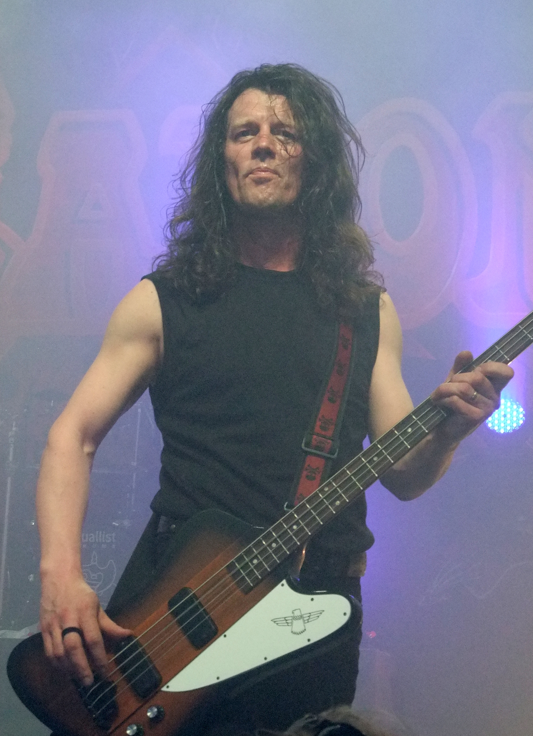 Nibbs Carter performing with Saxon at their traditional St George's Day show in London, 23rd April 2009